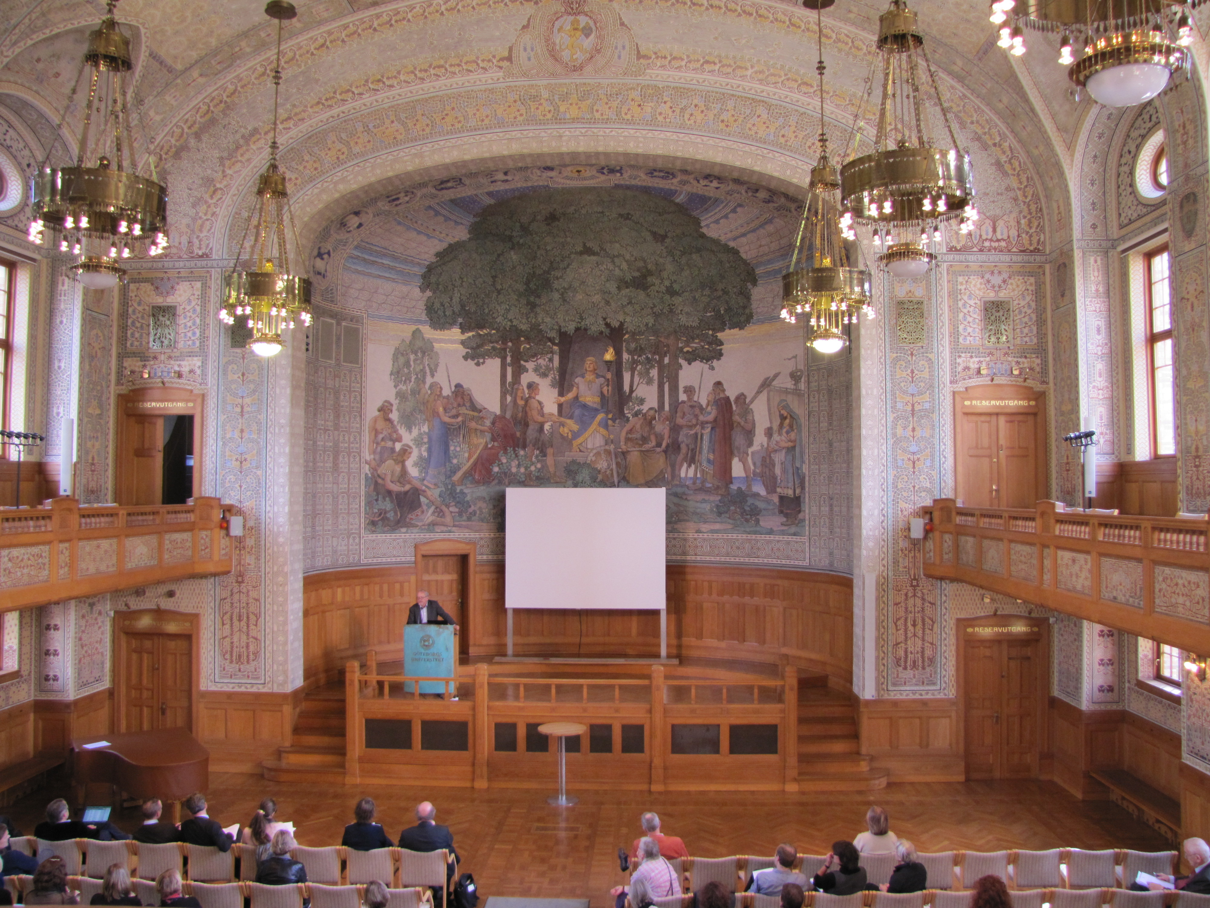 Lecture by Sven-Eric Liedman at the auditorium of the University of Gothenburg, the largest lecture hall at the main building of the university. Wall painting by Nils Asplund.